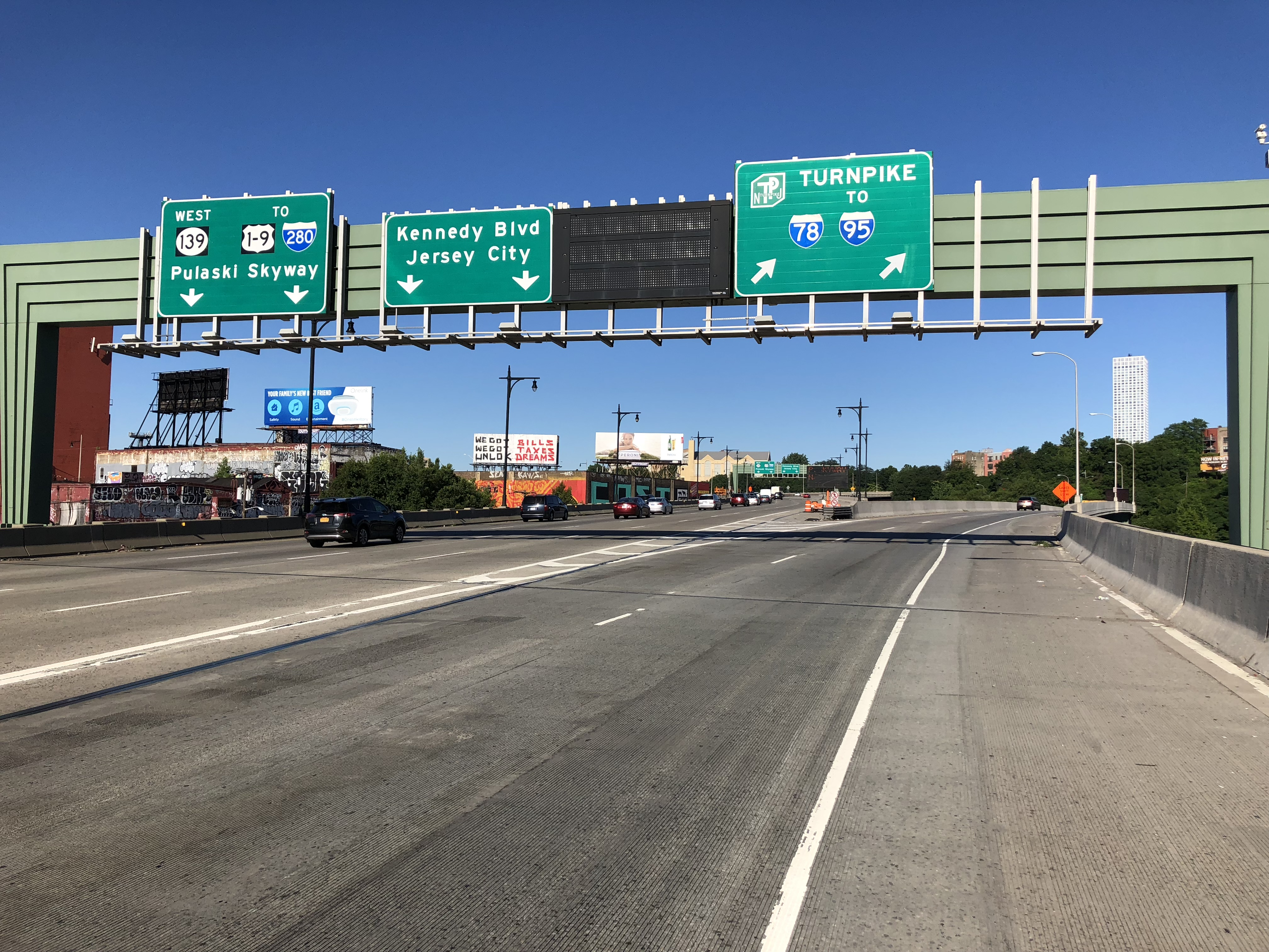 View west along Interstate 78 (New Jersey Turnpike Newark Bay Extension) at the exit for New Jersey State Route 139 in Jersey City, Hudson County, New Jersey